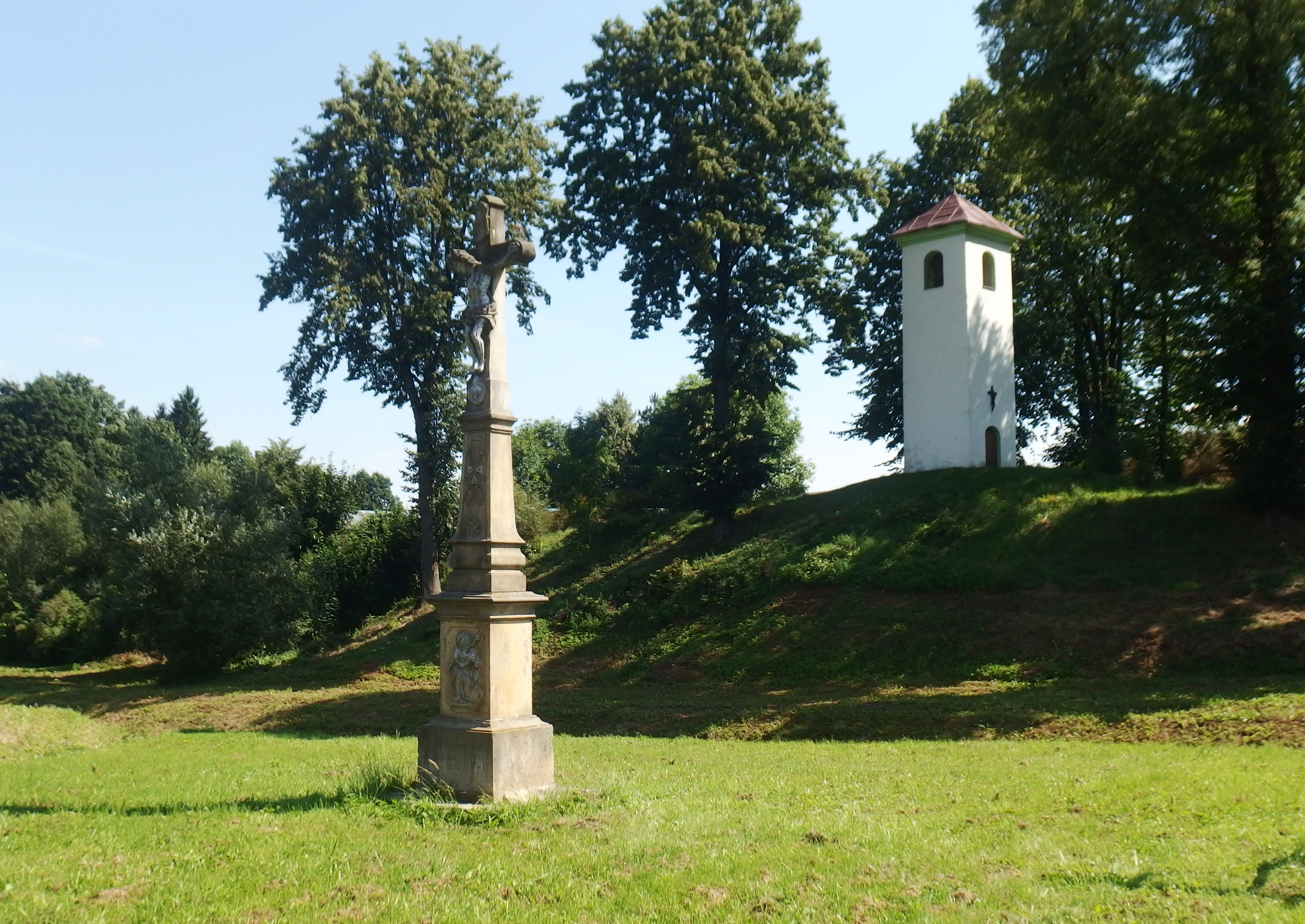 Městečko Trnávka, Svitavy District, Czech Republic, part Přední Arnoštov.